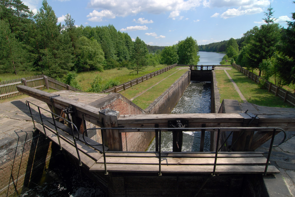 Paniewo Lock on the Augustowski (Augustow) Canal